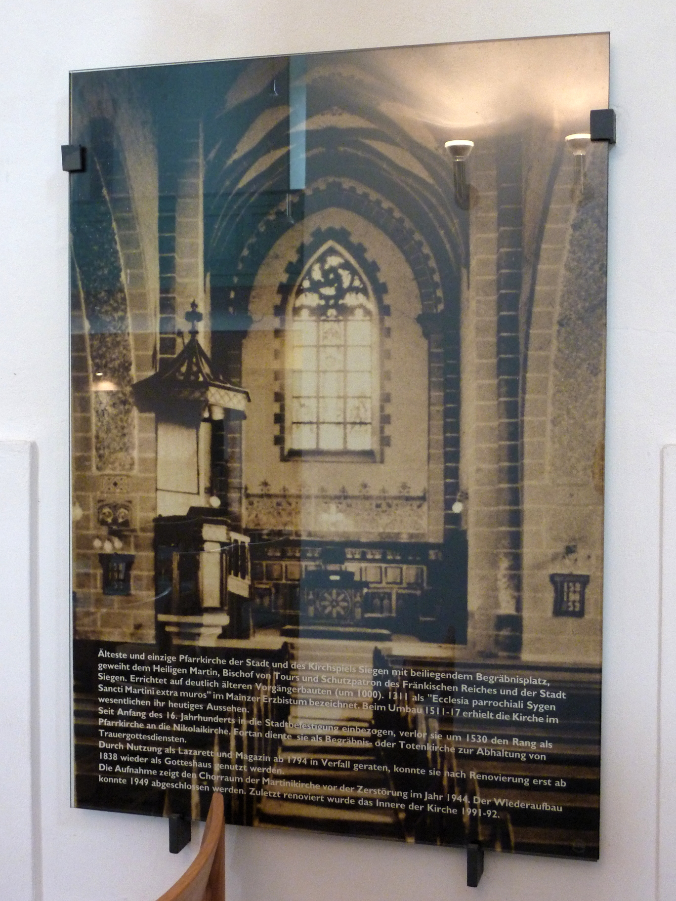 City of Siegen (Westphalia, Germany): Medieval St. Martin’s church (Martinikirche) on the Siegberg mountain in the center of town